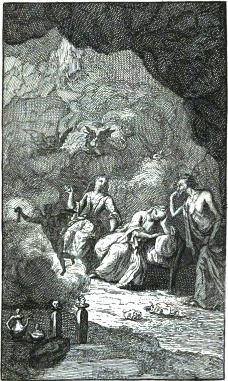 pg 49 of The rape of the lock: An heroi-comical poem. In five canto's